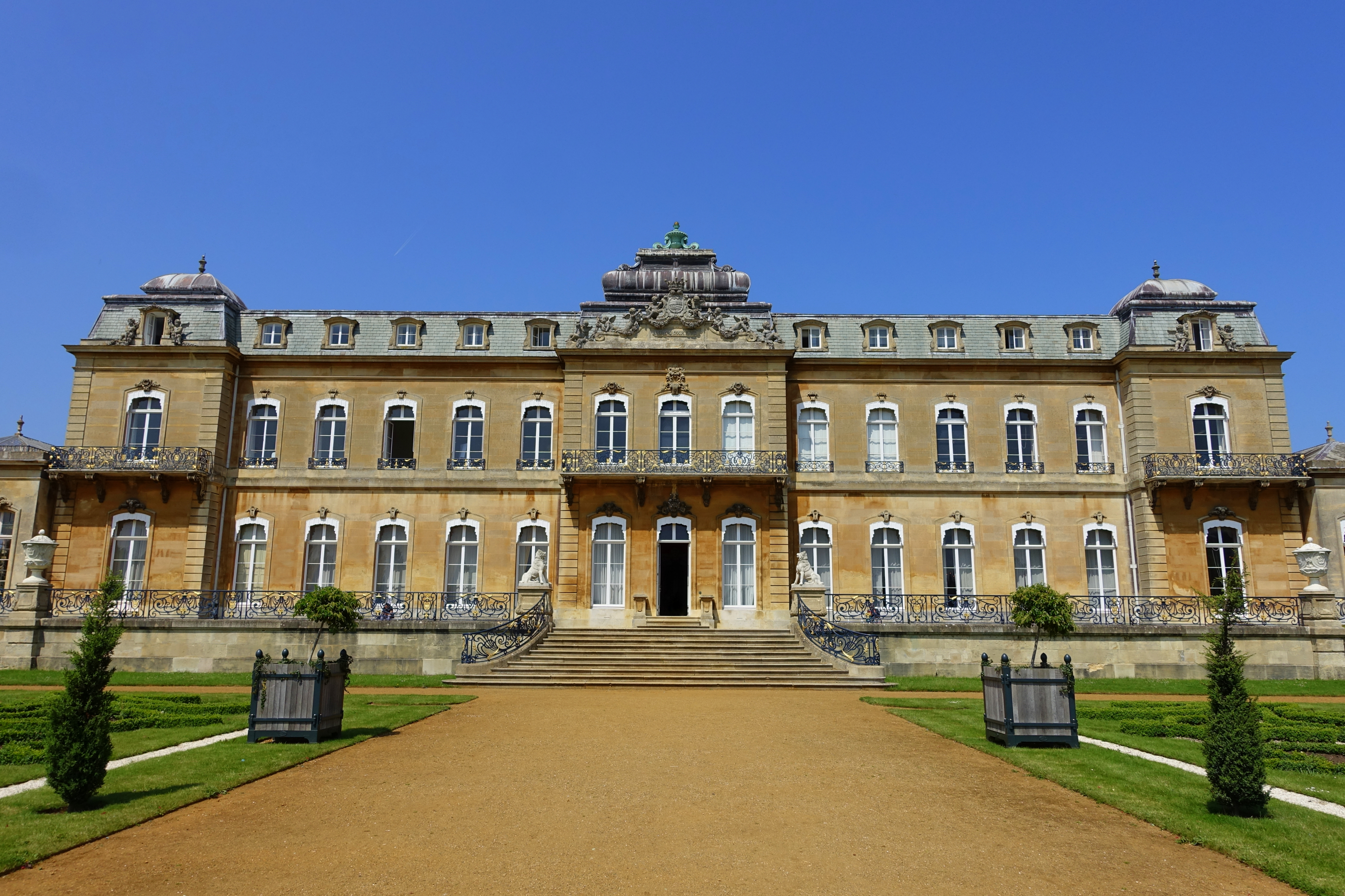 Wrest Park - Bedfordshire, England.